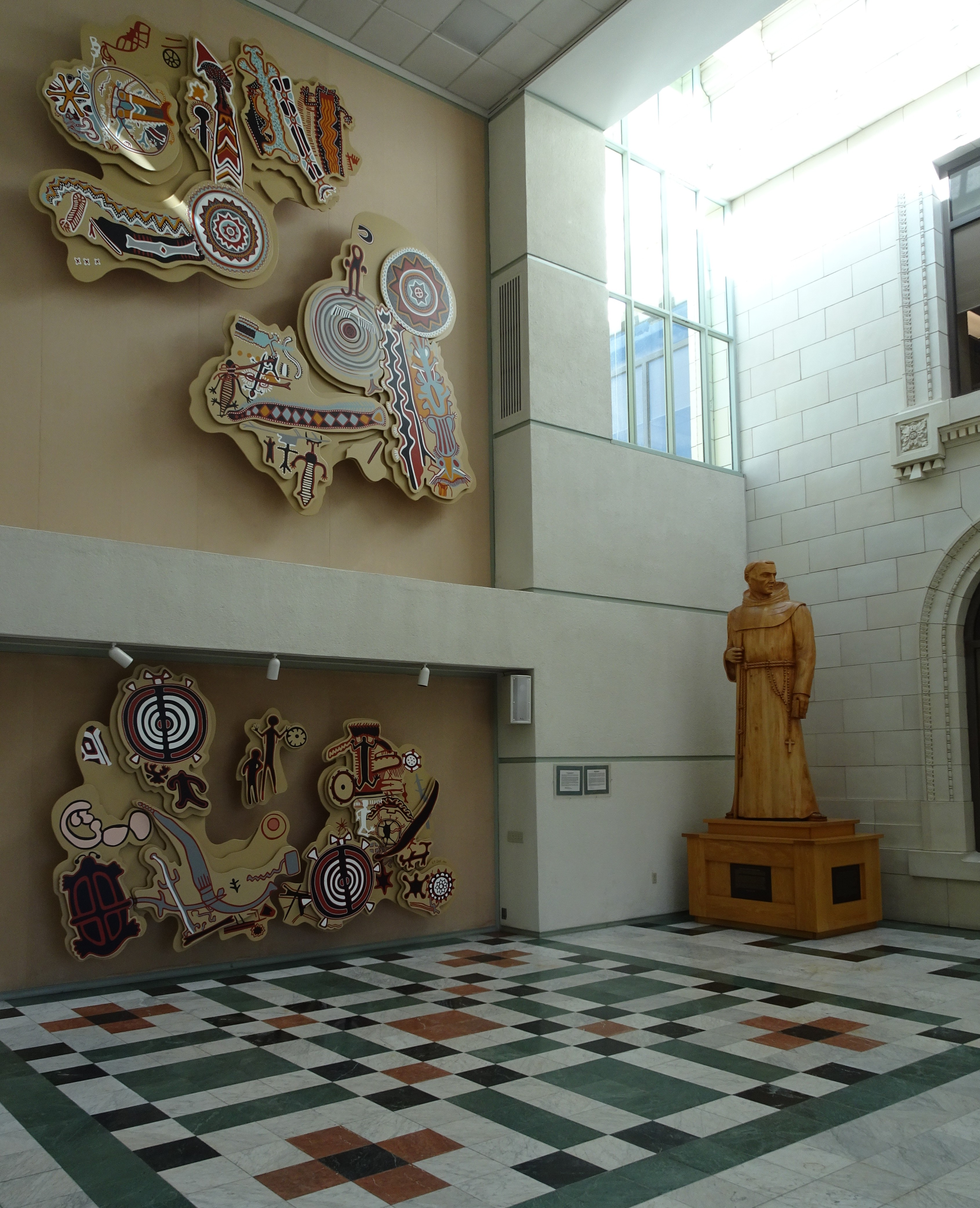 Murals of Chumash petroglyphs in atrium of Ventura City Hall with wooden statue of Father Junipero Serra